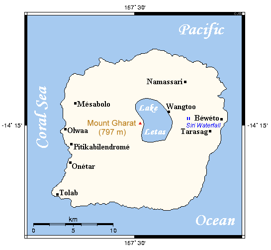 map of Gaua, Banks Islands, Vanuatu